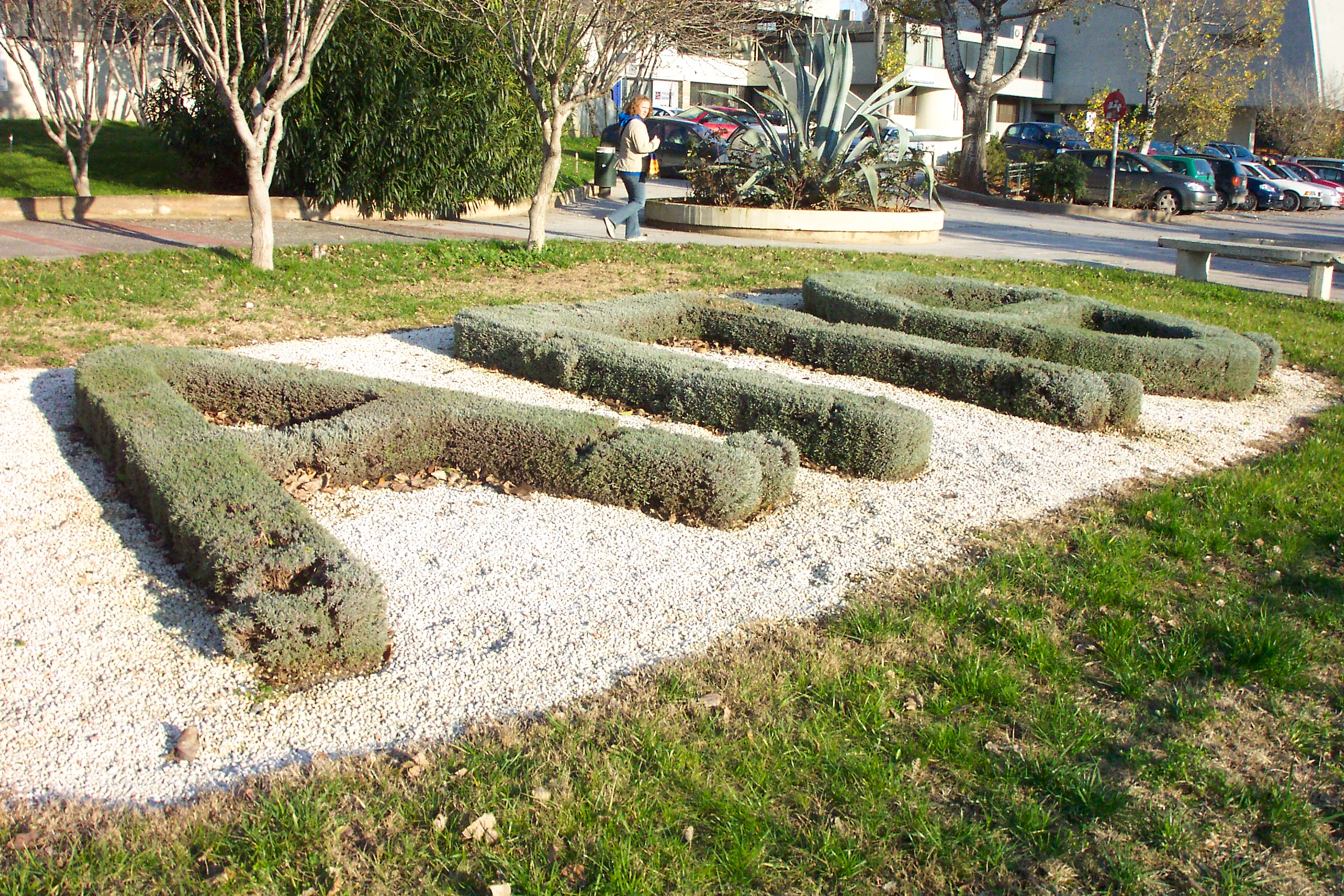 ΑΠΘ letters, this is the name of Aristotle University of Thessaloniki abbreviated in Greek letters in the grass.